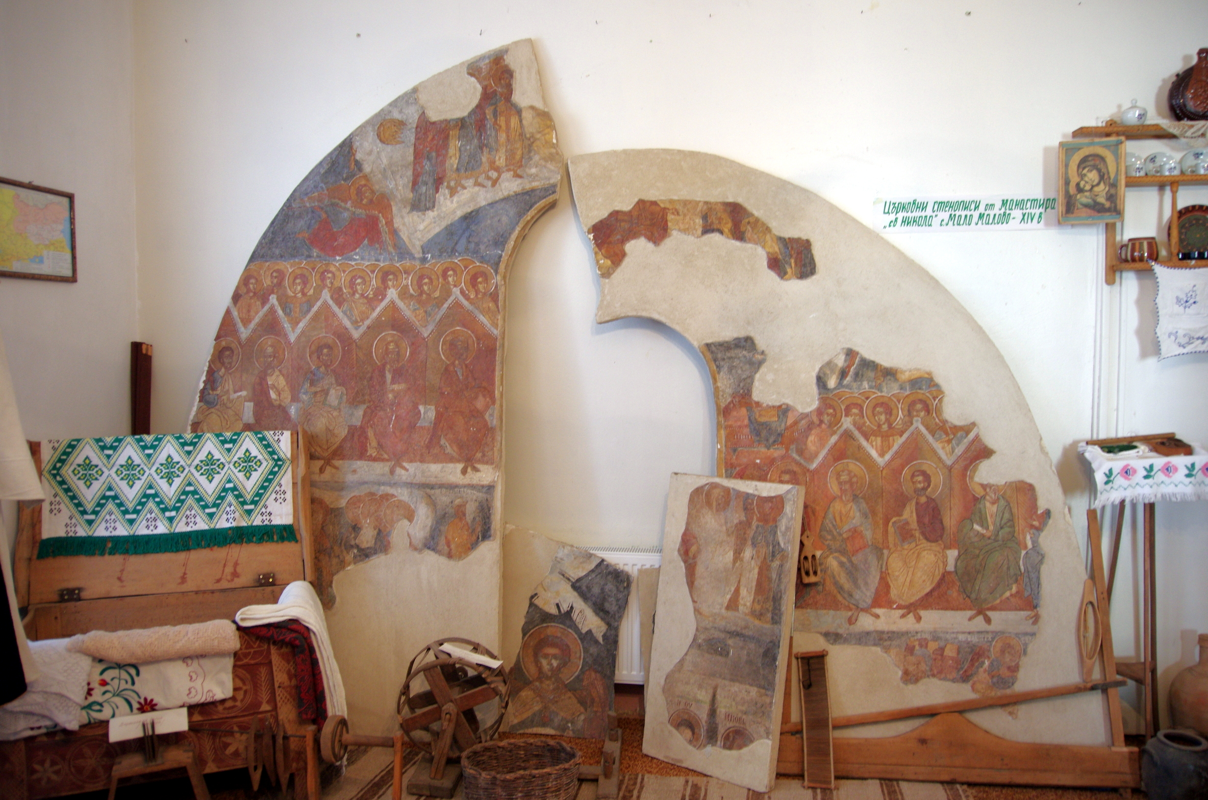 Original mural from the Malomalovo Monastery. Exhibit of the "Dragoman 1925" Community Centre in Dragoman, Bulgaria